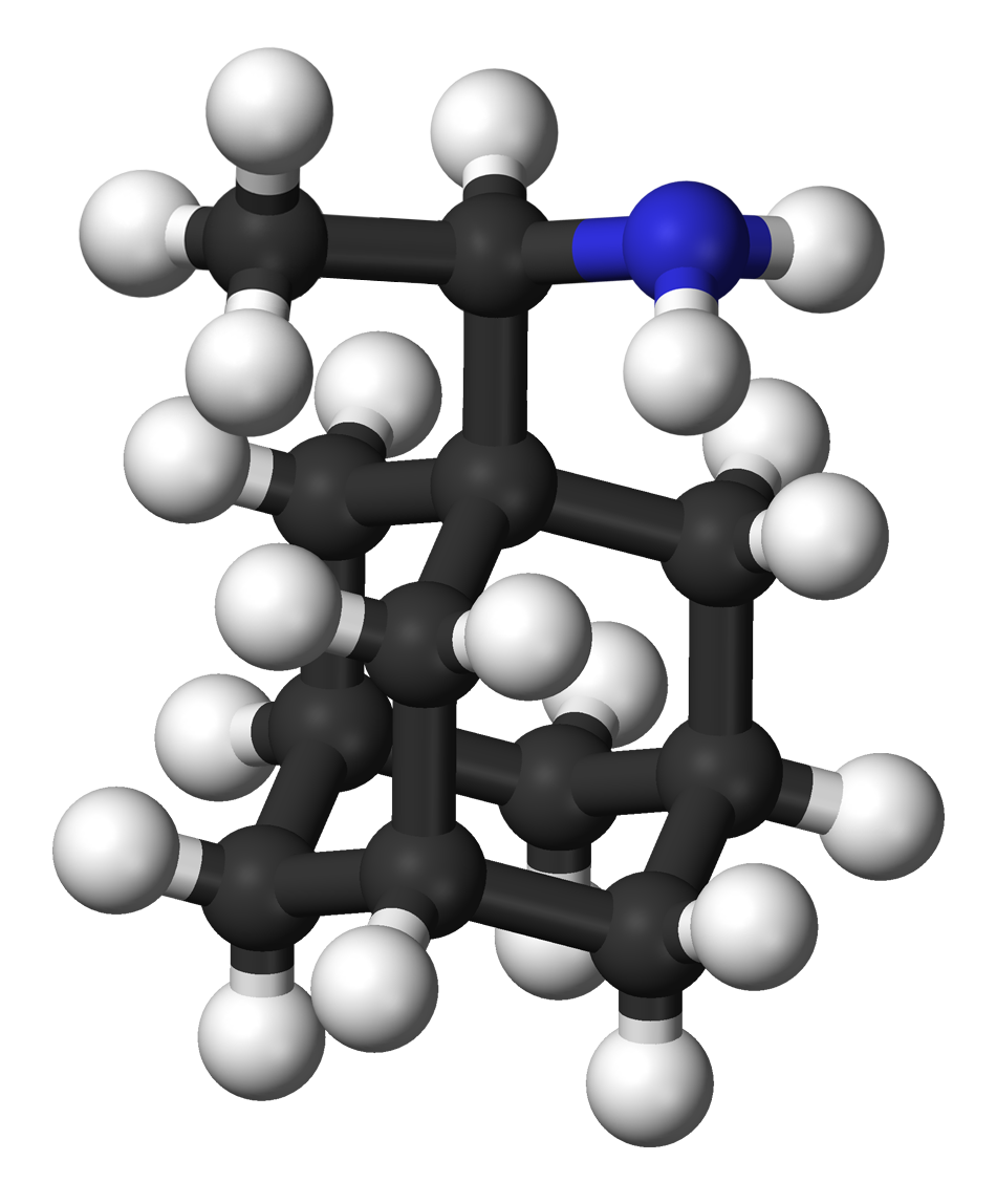 Ball-and-stick model of the rimantadine molecule.